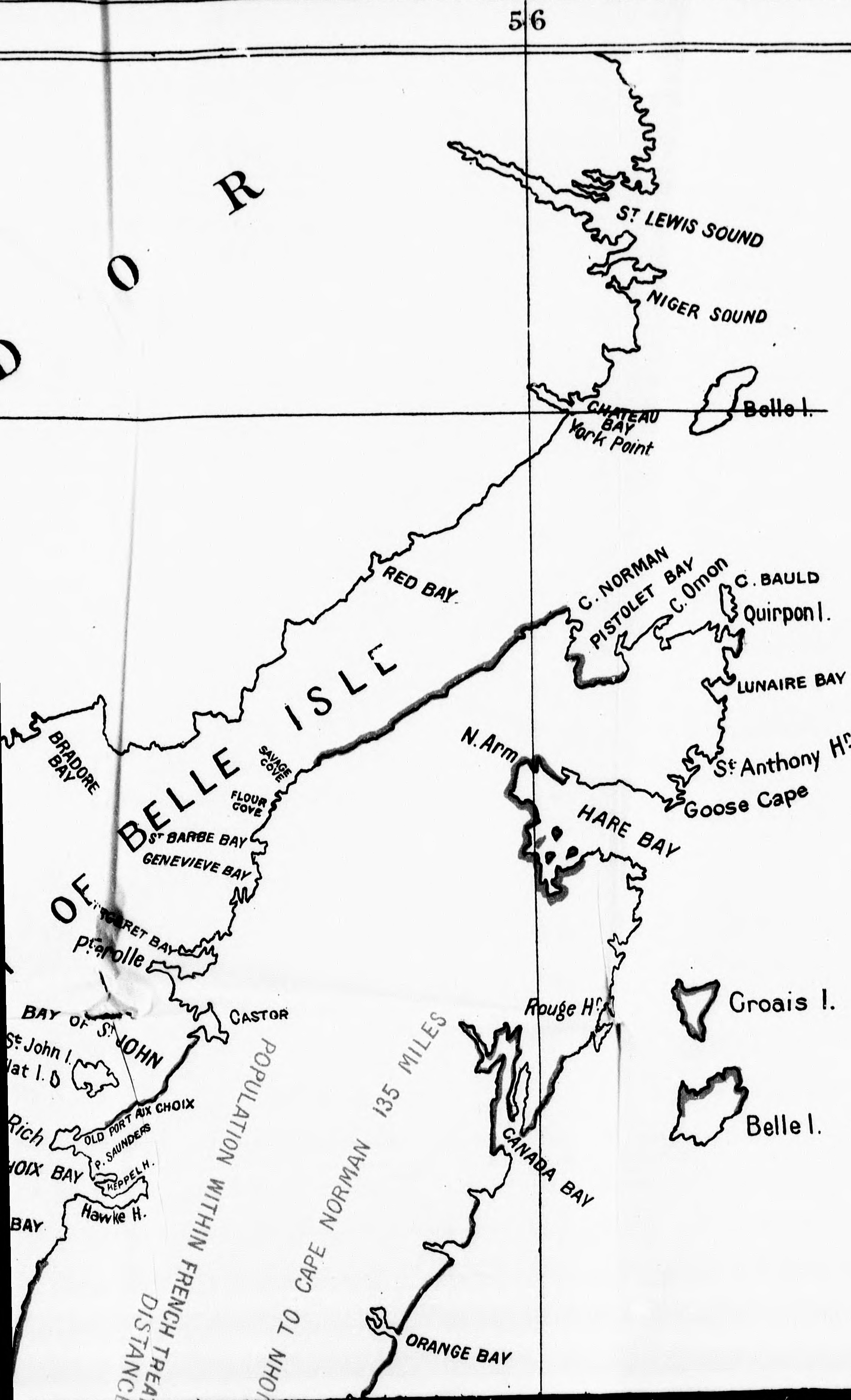 Title: French treaty rights in Newfoundland (microform) : the case for the colony stated by the people's delegates, Sir J. S. Winter, K.C.M. G., Q. C., P.J. Scott, Q.C., and A.B. Morine, M.L.A Year: 1890 (1890s) Authors: Winter, James Spearman, Sir, 1845-1911 Subjects: Fisheries; Pêches Publisher: London : P. S. King Text Appearing Before Image: ' Text Appearing After Image: V^CHOIX Y7 Groais !. EXPLANATIO That part of the coast of X^^wfoundhJ have certain treaty rights of fishing e\te the eastern coast, passing U^ the north J western coast, to Cape Ruy, at the sou Gulf of St. Lawrence. The proposed arrangement of 188.1 absolute right over the Ht^an(ls of thos; which are not tinted on the map, and to use the portion tinted red, for purposes fishery. The great portion of the coast harbours, and was therefore vahieless to Cape Ray North to Cape Norman the dis Cape Norman to Cape John it is 135 iil miles, having a coast line of 790 mil) frequented by only seven French vessels The French war vessels patrol this part oj British tishermen from fishing. The inhabitants on this coast, who are rej parliament by-two members. They pay 11 and are amenable to all the laws of til permitted to exercise absolute and unc maritime rights. French subjects who no taxes, customs' or light dues, and ar(^ laws, and frequently interfere with our fi)! POPULATION OF NEWF( South coast, from Cape Eay to Cape Ractl Of which 10,455 are engaged in catcl^ fish. East and North East coast, from Cape John Of which 43,950 are engaged in catchj fish. On that part of the Coast where the Freniere first c( telegraph cable from Ireland t(iNe\vfoun(ll; cables were laid from Valenei/, in Irelaiu in Trinity Bay, in the years I860, "(iG, "; three are the only ones now in use. Placentia v h Sydney, Cape Brelon—tw( Island of St. Pierre. The French cab; ^re landed at St. Pierre. The direct Unite passes close by the Peninsula of Avalon. COMPARATIVE STATEMENT SEVERAL COUNTI Newfoundland Irv^laftd ,- .. Scotlaiid